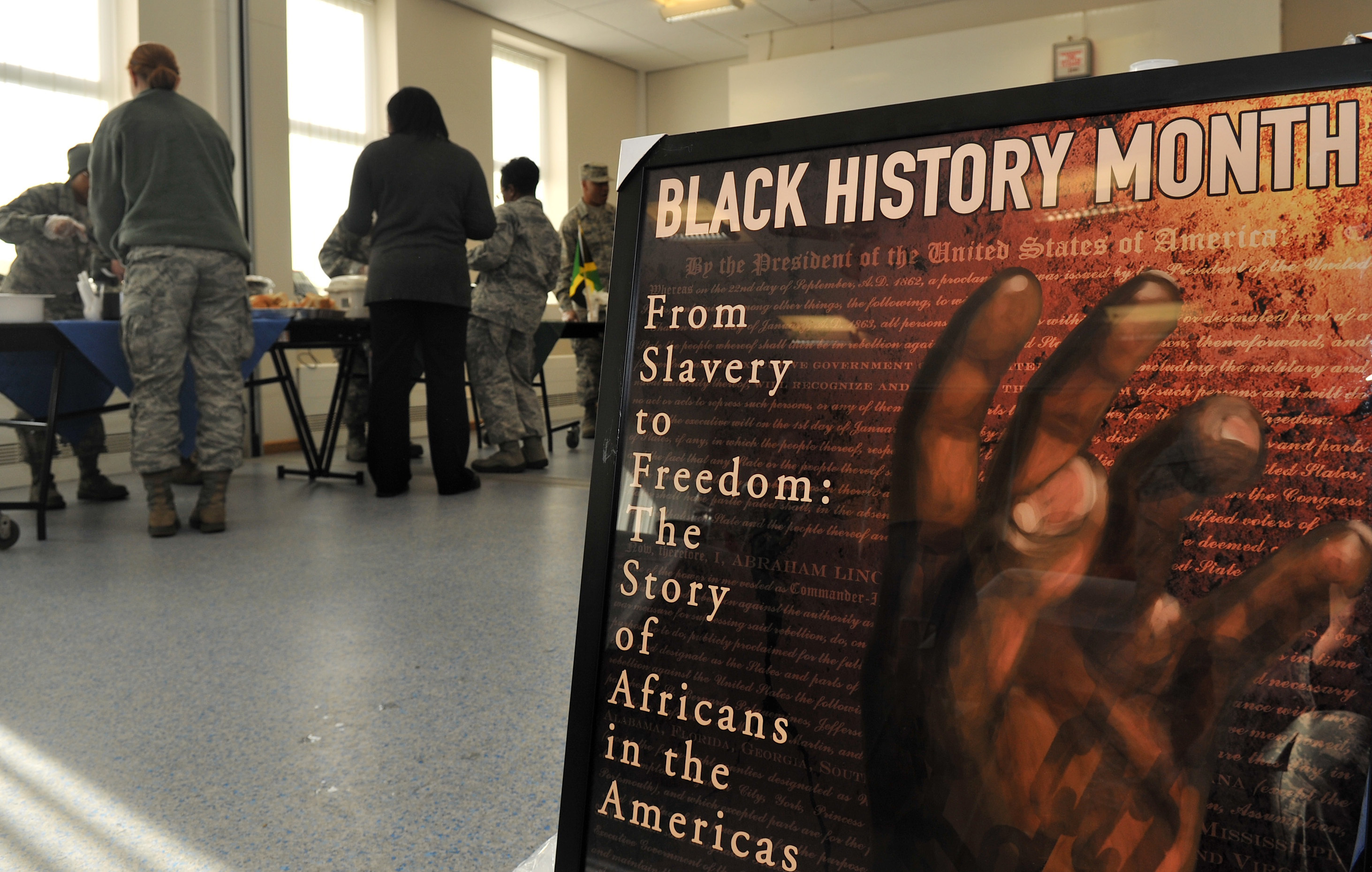 Team Mildenhall airmen attend the African-American Black History cultural food tasting event at the base chapel Feb. 8, 2013, at RAF Mildenhall, England. Traditionally celebrated in the month of February, African-American Black History month serves as a time to commemorate and celebrate the contributions to the nation made by people of African-American descent. (U.S. Air Force photo by Senior Airman Jerilyn Quintanilla/Released)